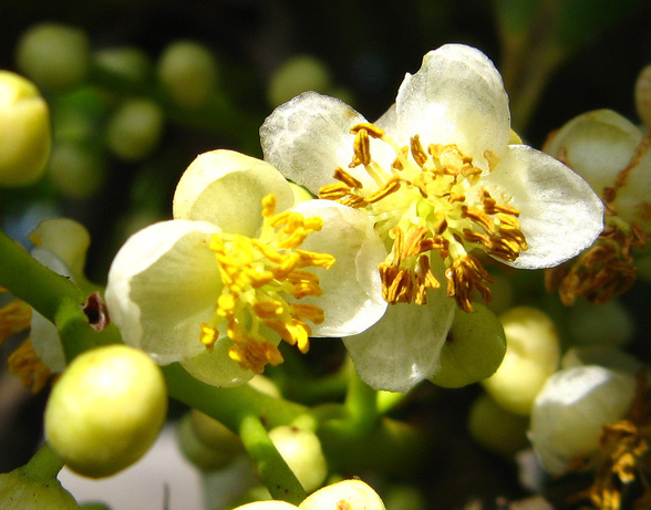 male guanandi Calophyllum brasiliense flower